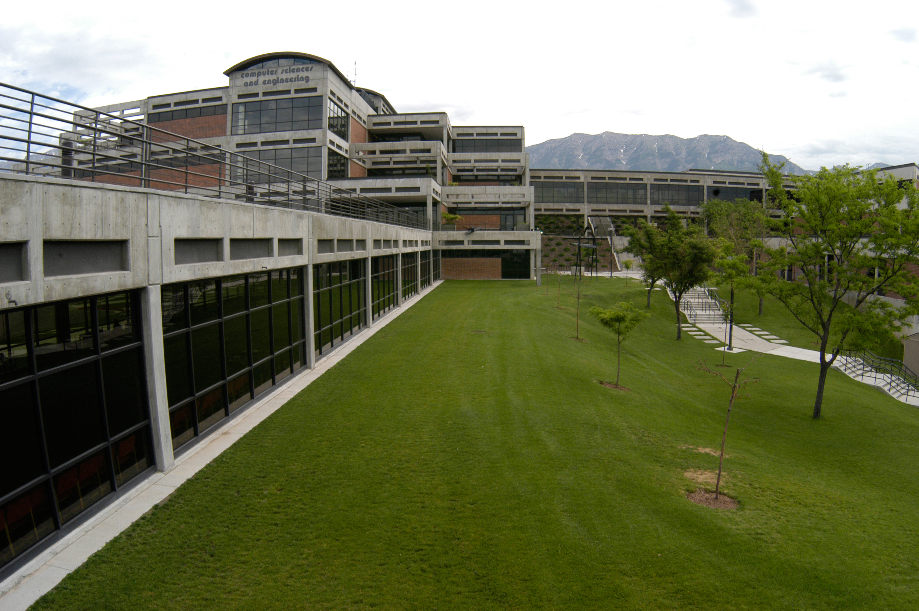 Architecture shots of the CS Building on UVU Campus